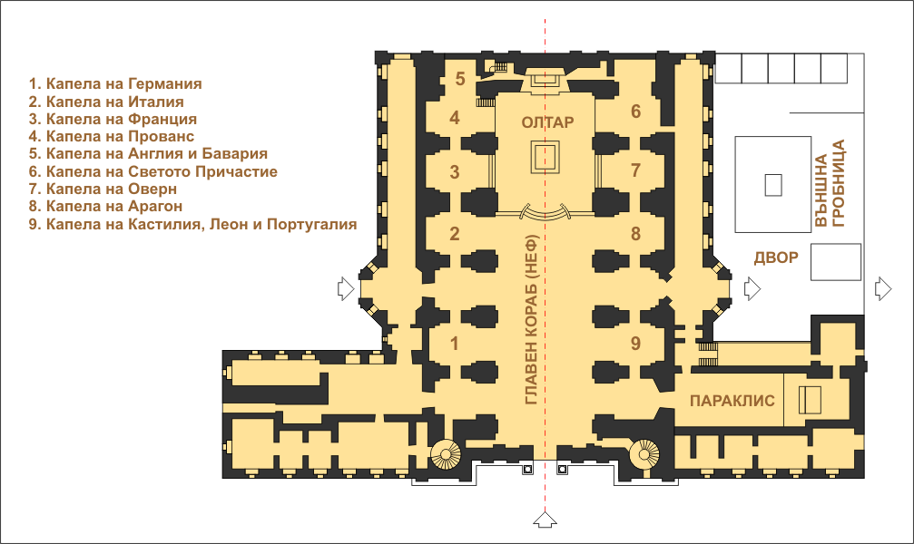 plan of the St. John's co-cathedral, Valletta